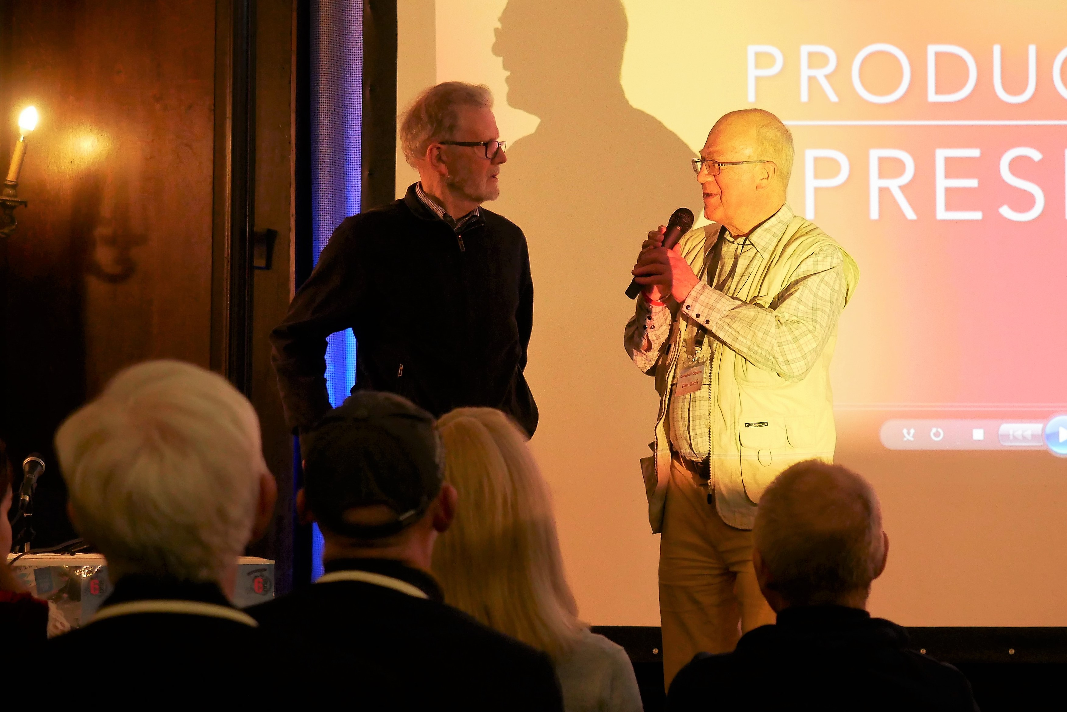 On stage being interviewed